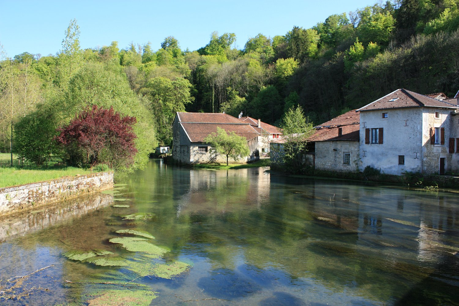 View of the Saulx river at Rupt-aux-Nonains